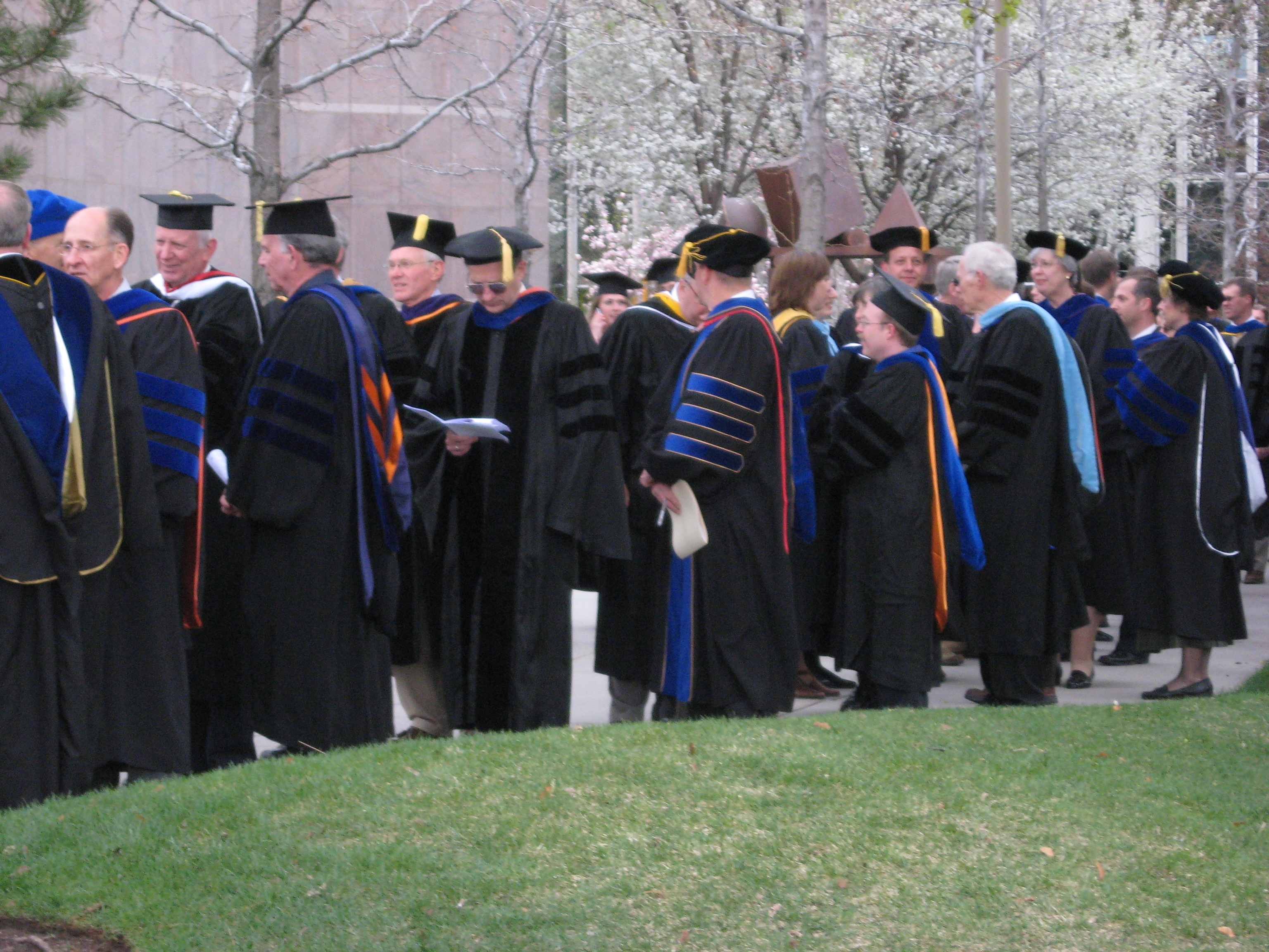 Academic doctors gather before a graduation procession at Brigham Young University